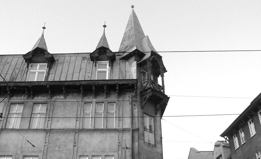 Jezycki Market in Poznan.